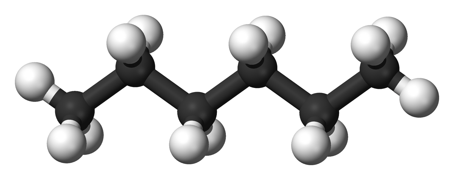 Ball and stick model of the hexane molecule.